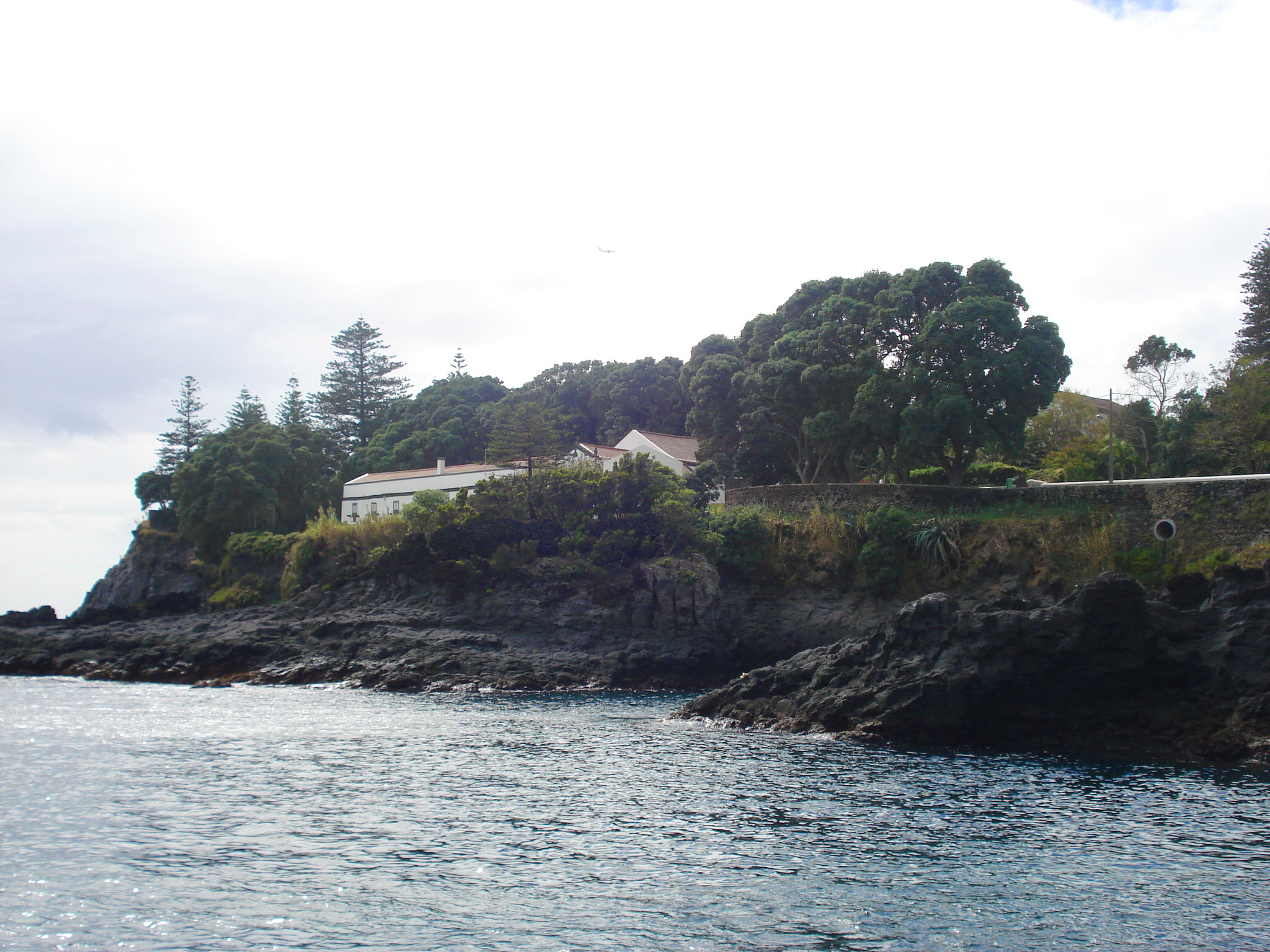 The old buildings of the Convent of Caloura, along the seaside, civil parish of Água de Pau, municipality of Lagoa (Azores), Portugal